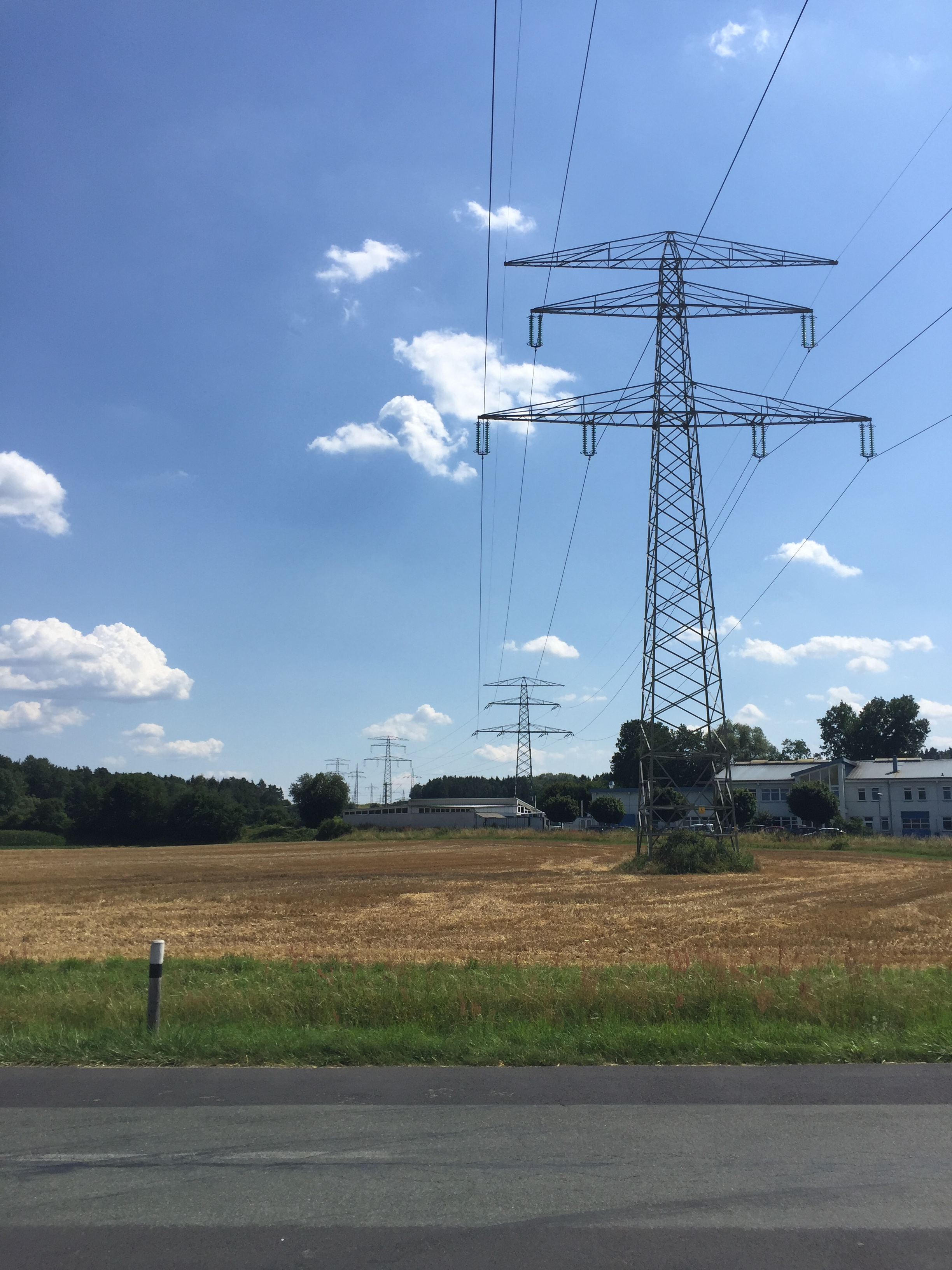 Oldest 220 kV power line in Bavaria